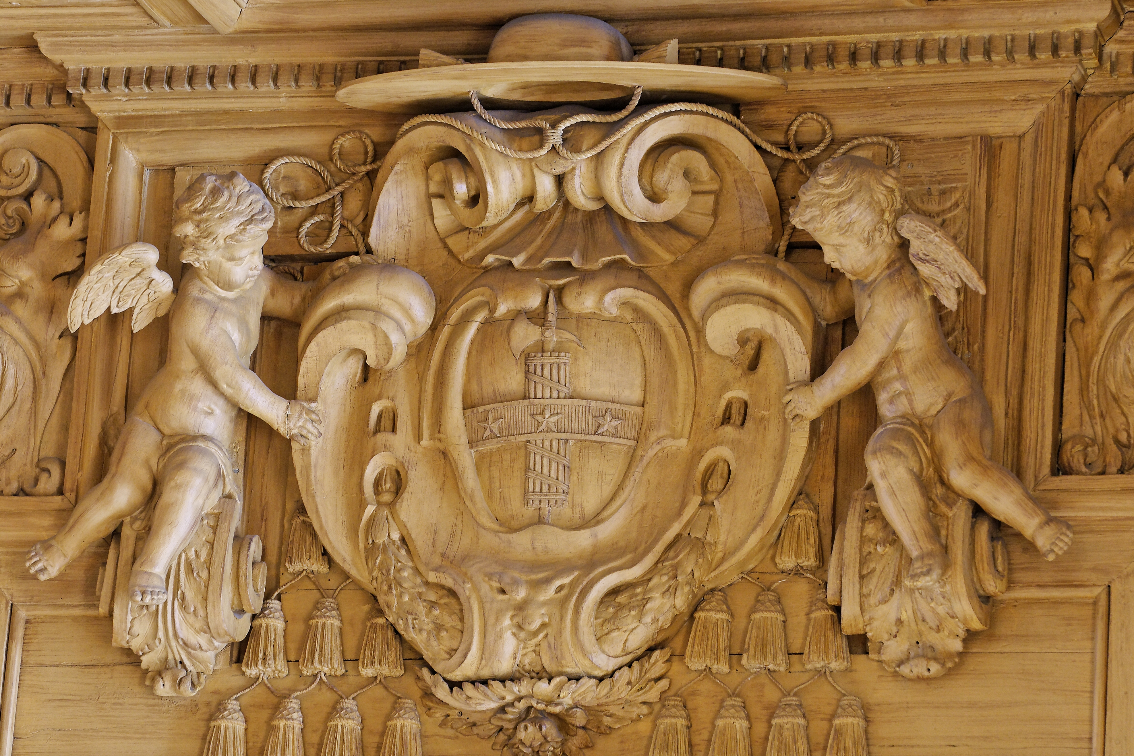 Wood relief with the coat of arms of Cardinal Mazarin. Lintel of the doors of the Reading Room, the Bibliothèque Mazarine, Paris.